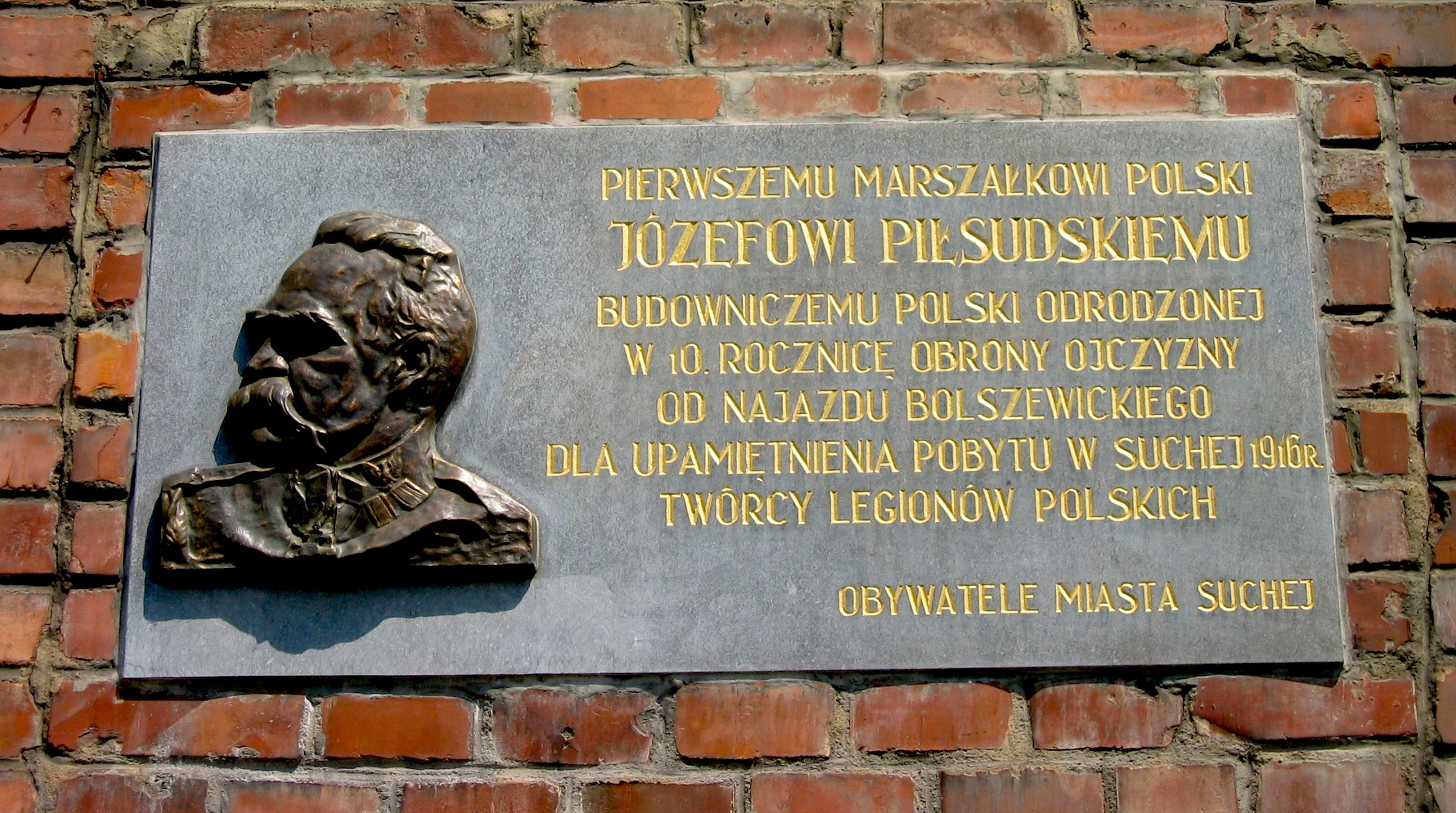 Memorial plaque to Marshal Józef Piłsudski in Sucha Beskidzka